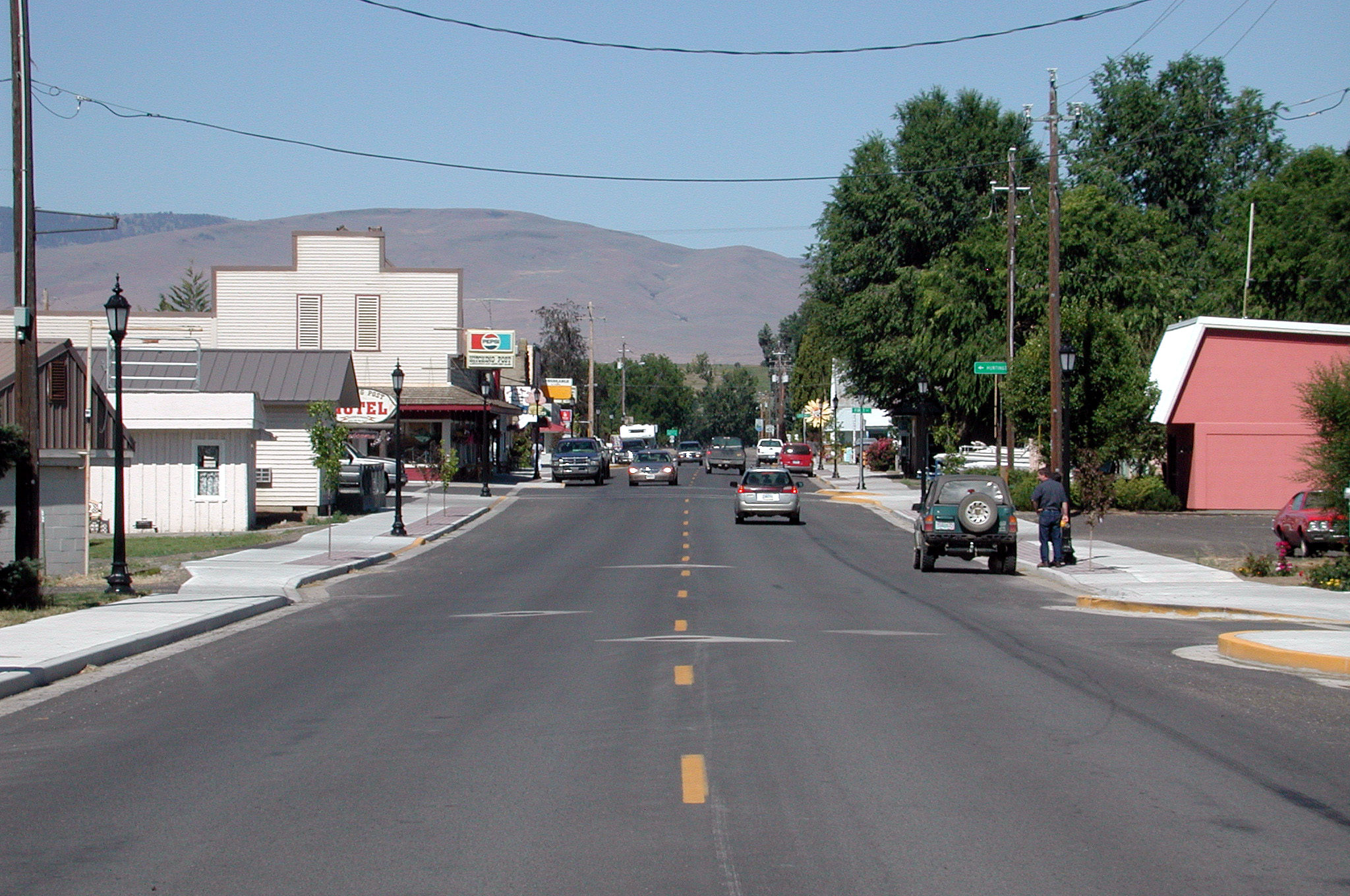 Main Street (Oregon Route 86) in Richland, Oregon, looking south